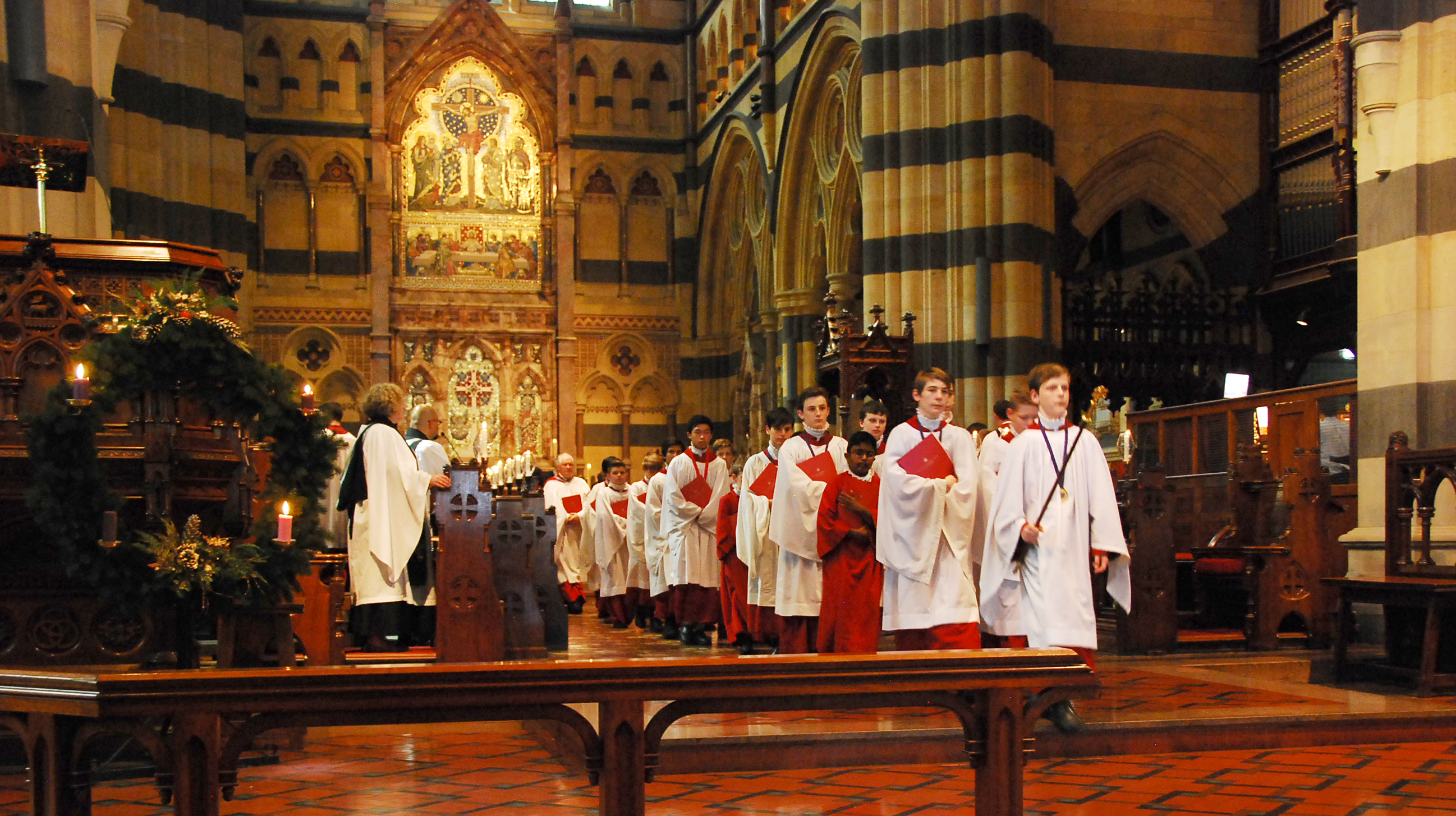 St Paul's Cathedral Melbourne Architect: William Butterfield